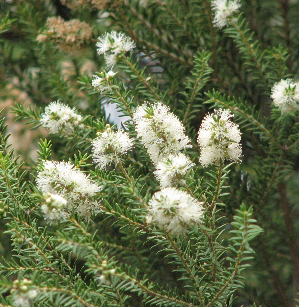 Melaleuca lanceolata (cultivated, labelled) Maranoa Gardens, Balwyn, Victoria, Australia